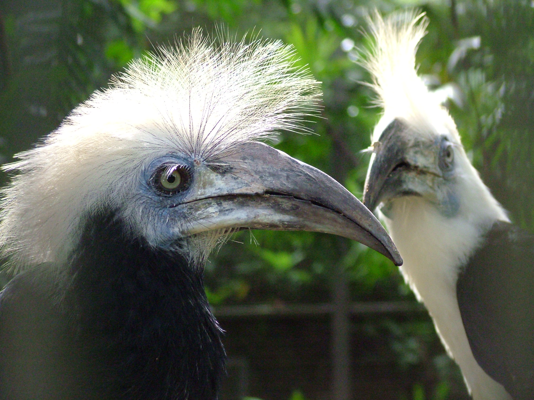 White-crowned Hornbill (Berenicornis comatus, syn. Aceros comatus) at a bird park in Singapore.